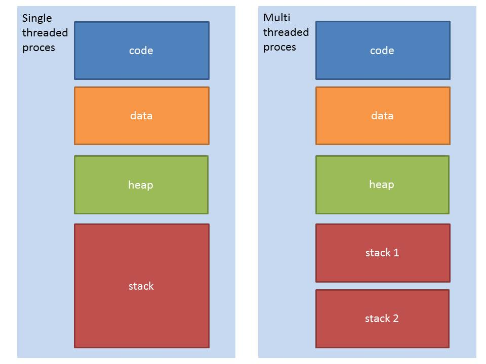 Difference in memory usage for single threaded processes versus multithreaded processes